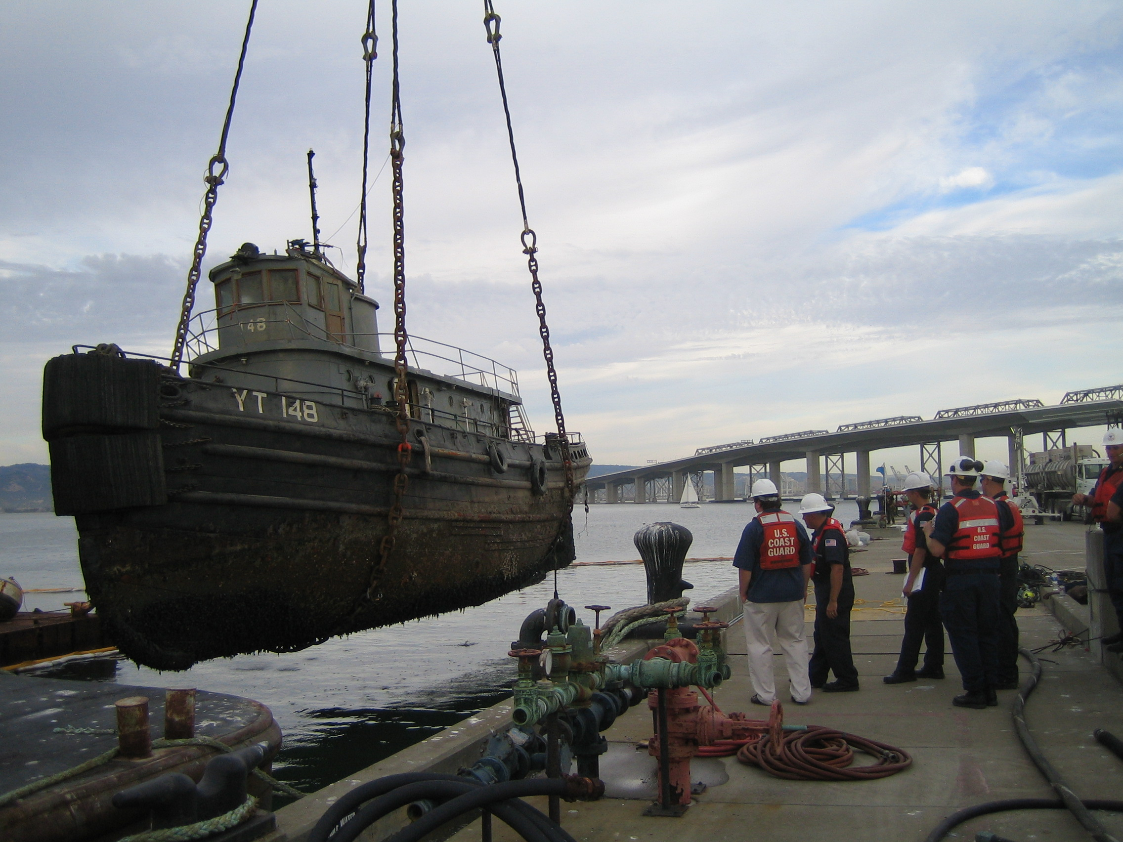 Bow view of the raised USS Wenonah. Because the tugboat is too heavy for the barge-mounted cradle, USCG, NPFC and the salvage contractor are discussing options. Photo taken by JStout, NOAA SSC